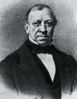 Lammert Allard te Winkel (1809-1868), Dutch linguist. Also known as L.A., Lamert or Lambert te Winkel